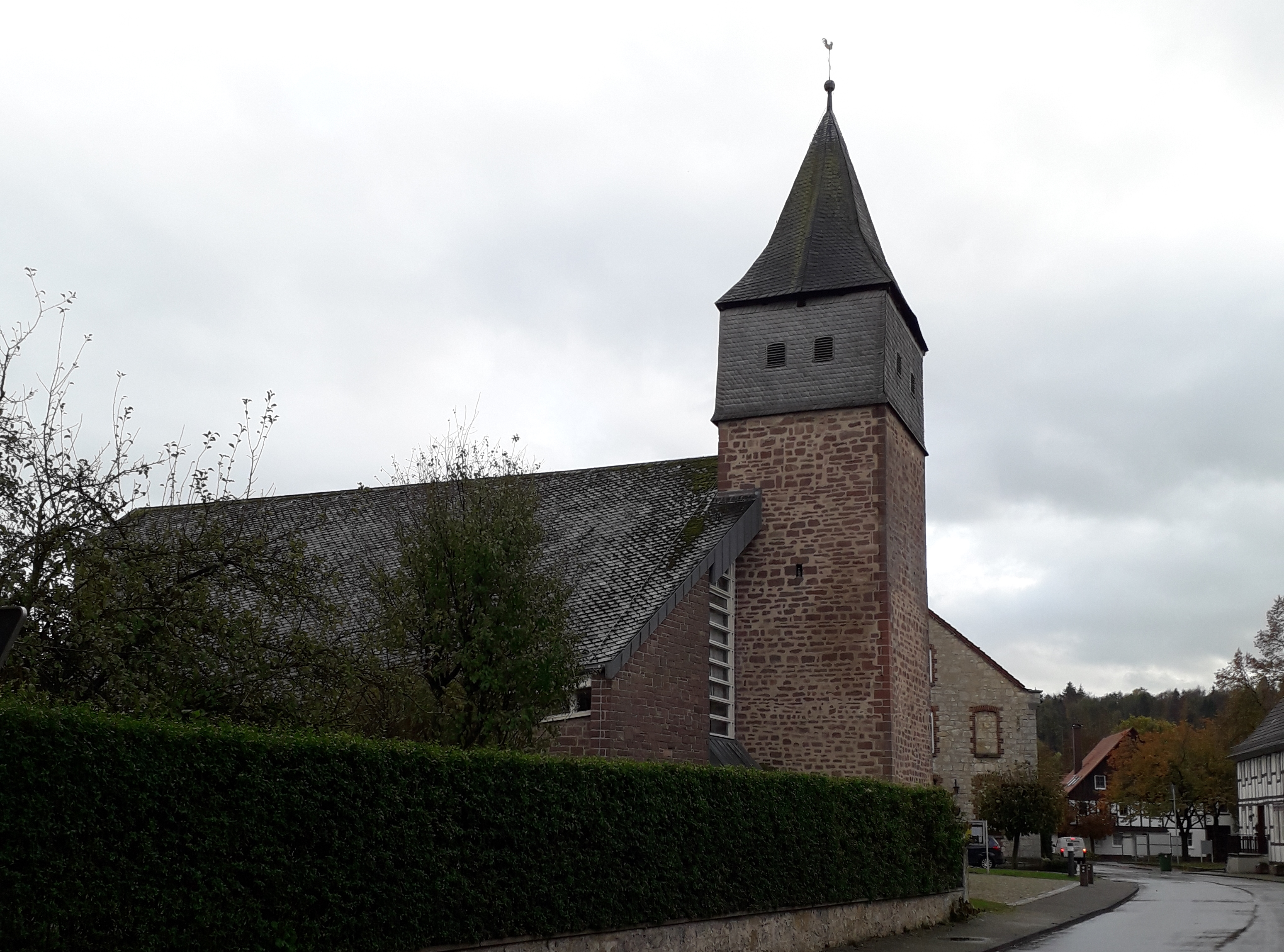 St. Nicholas church in Germete, Germany.